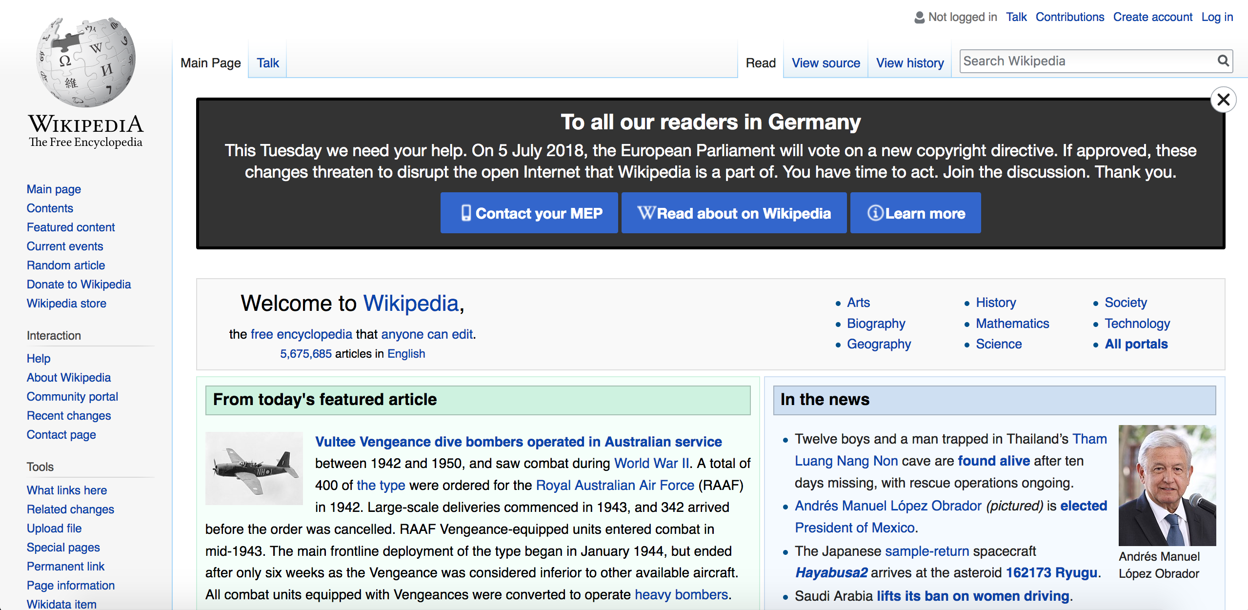 Banner used to draw attention to the Directive on Copyright in the Digital Single Market on the English Wikipedia in EU countries